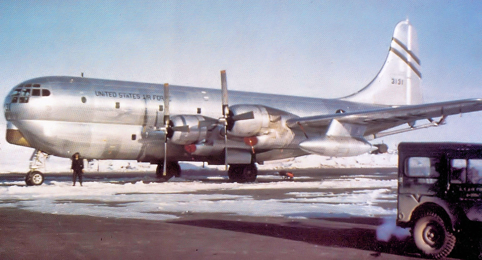 320th Air Refueling Squadron Boeing KC-97G Stratofreighter 53-131, shown at Thule AB, Greenland, 1953. Aircraft was converted to HC-97G 5/1964. To MASDC for storage as CH0518 Apr 15, 1972, scrapped Aug 1972.